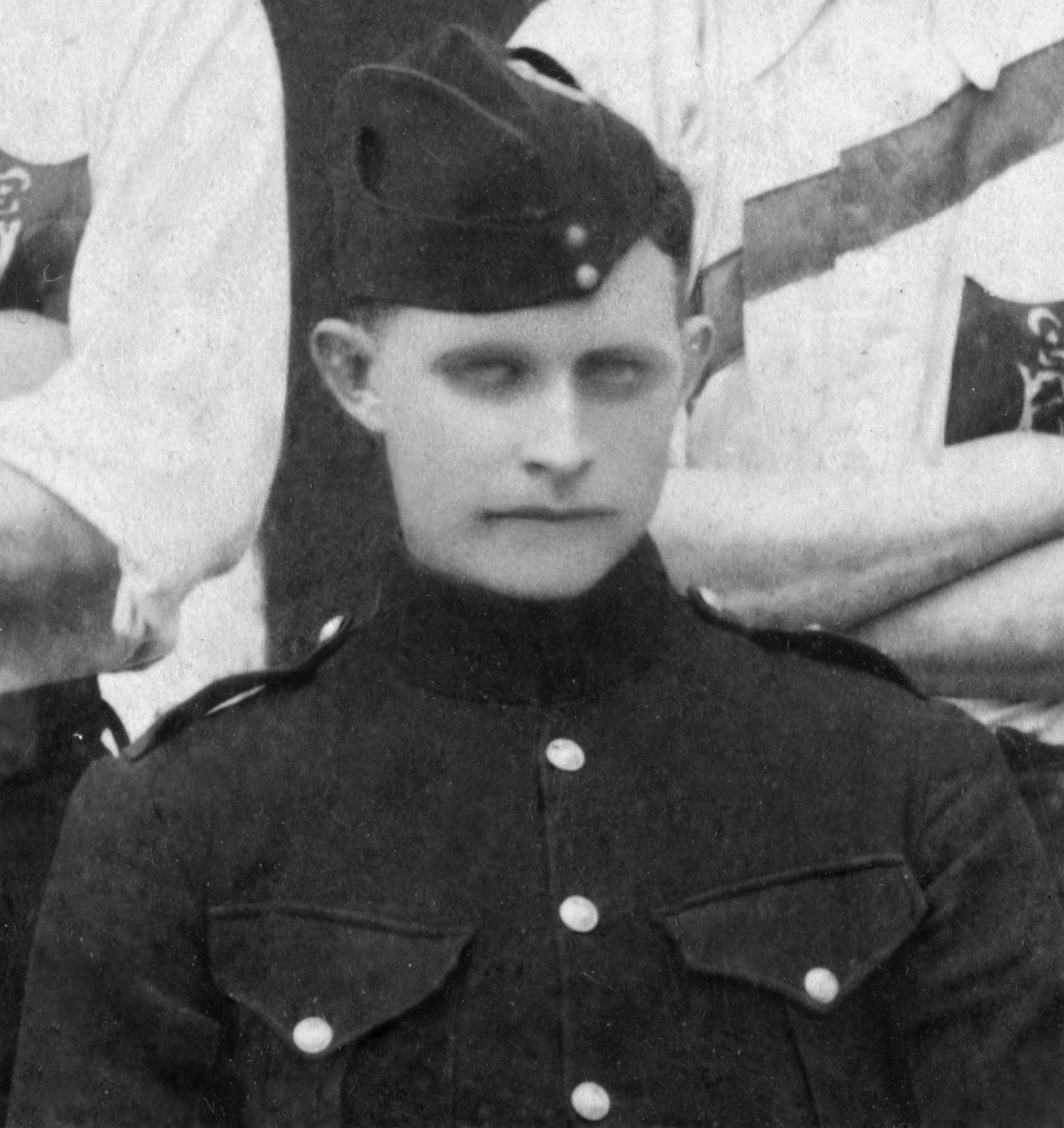 Captain Statford Edward St. Leger 1897